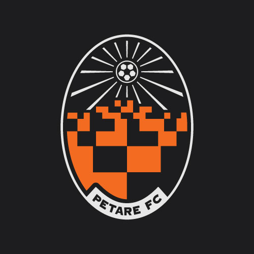 Escudo Oficial Petare Fútbol Club, equipo de fútbol de la 1ra División de Venezuela.